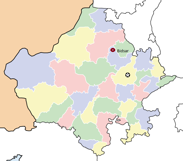 It is map of Rajasthan